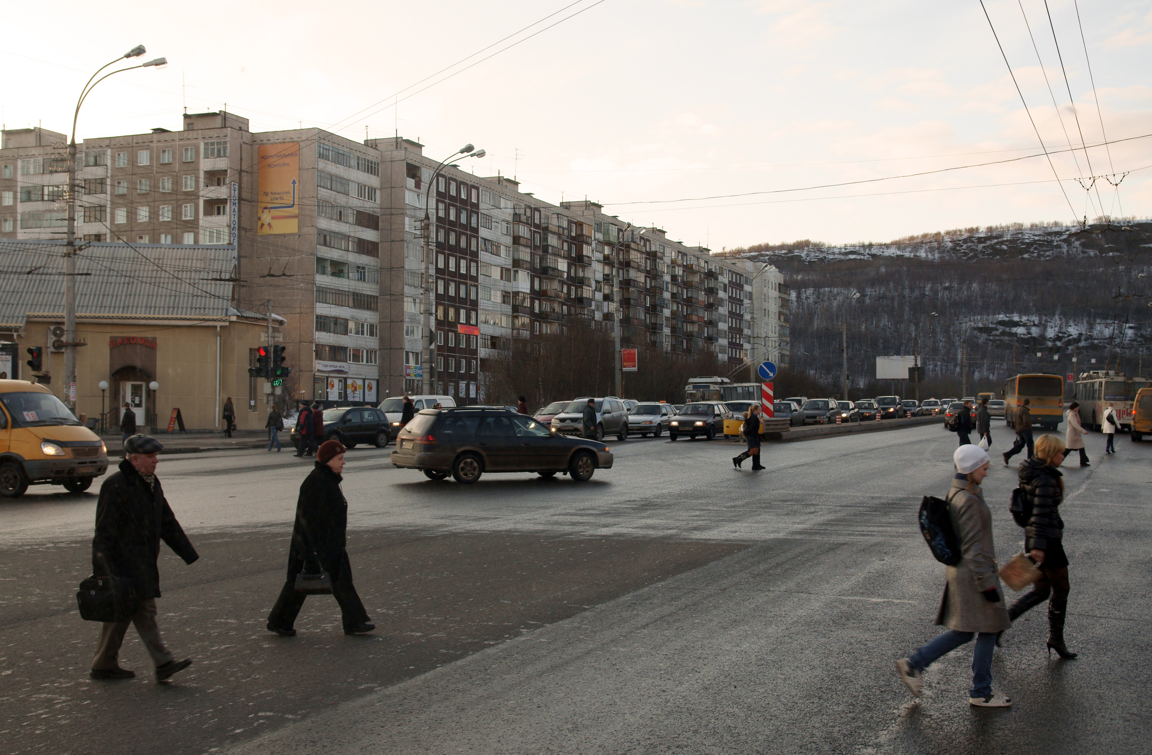 Street in Murmansk.